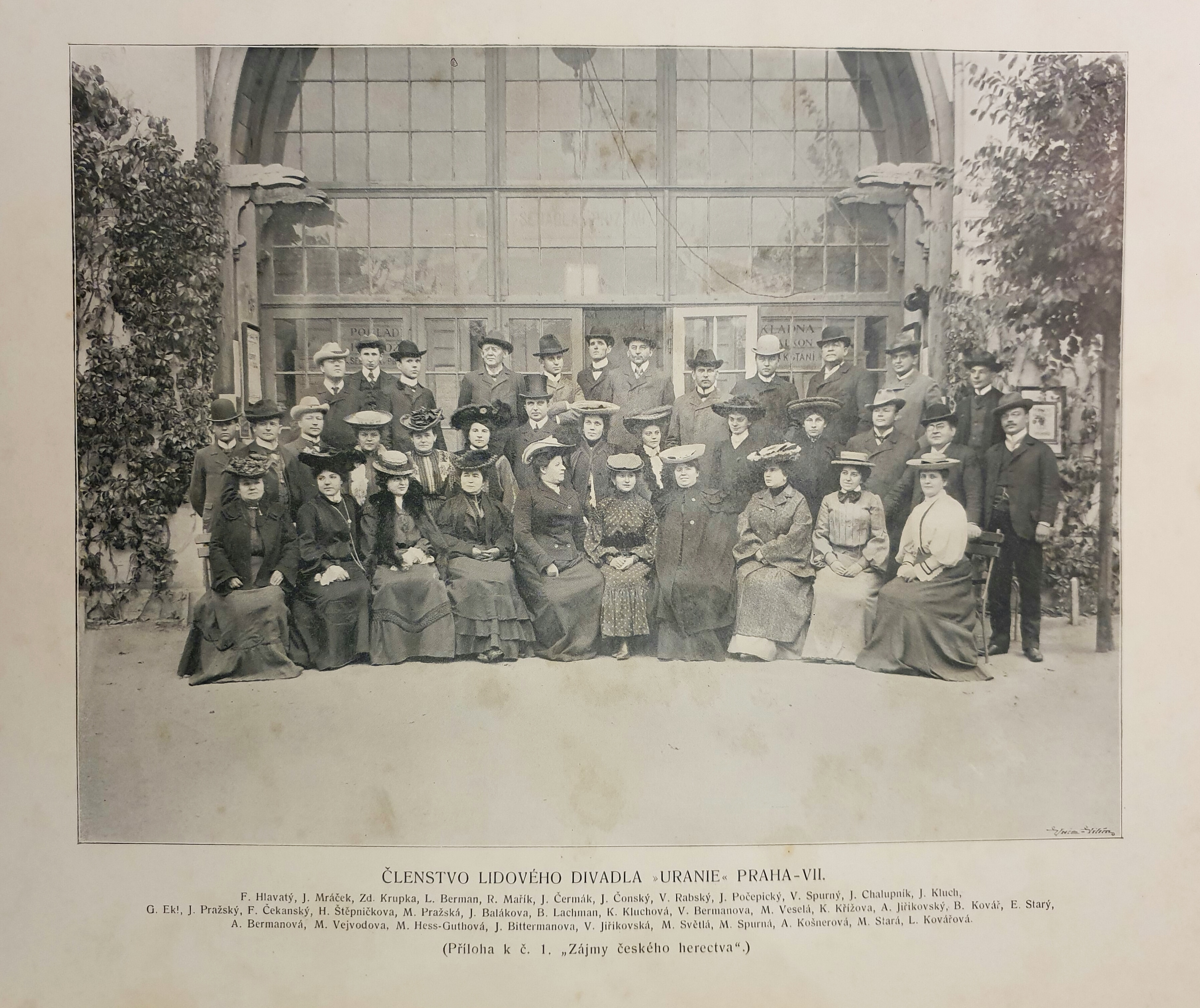 Urania theatre ensemble